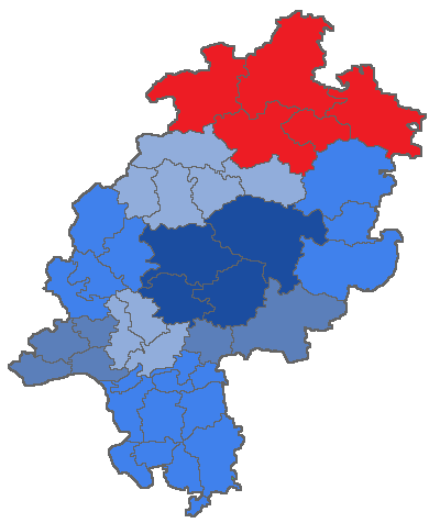 Map of the district court Kassel in Hesse